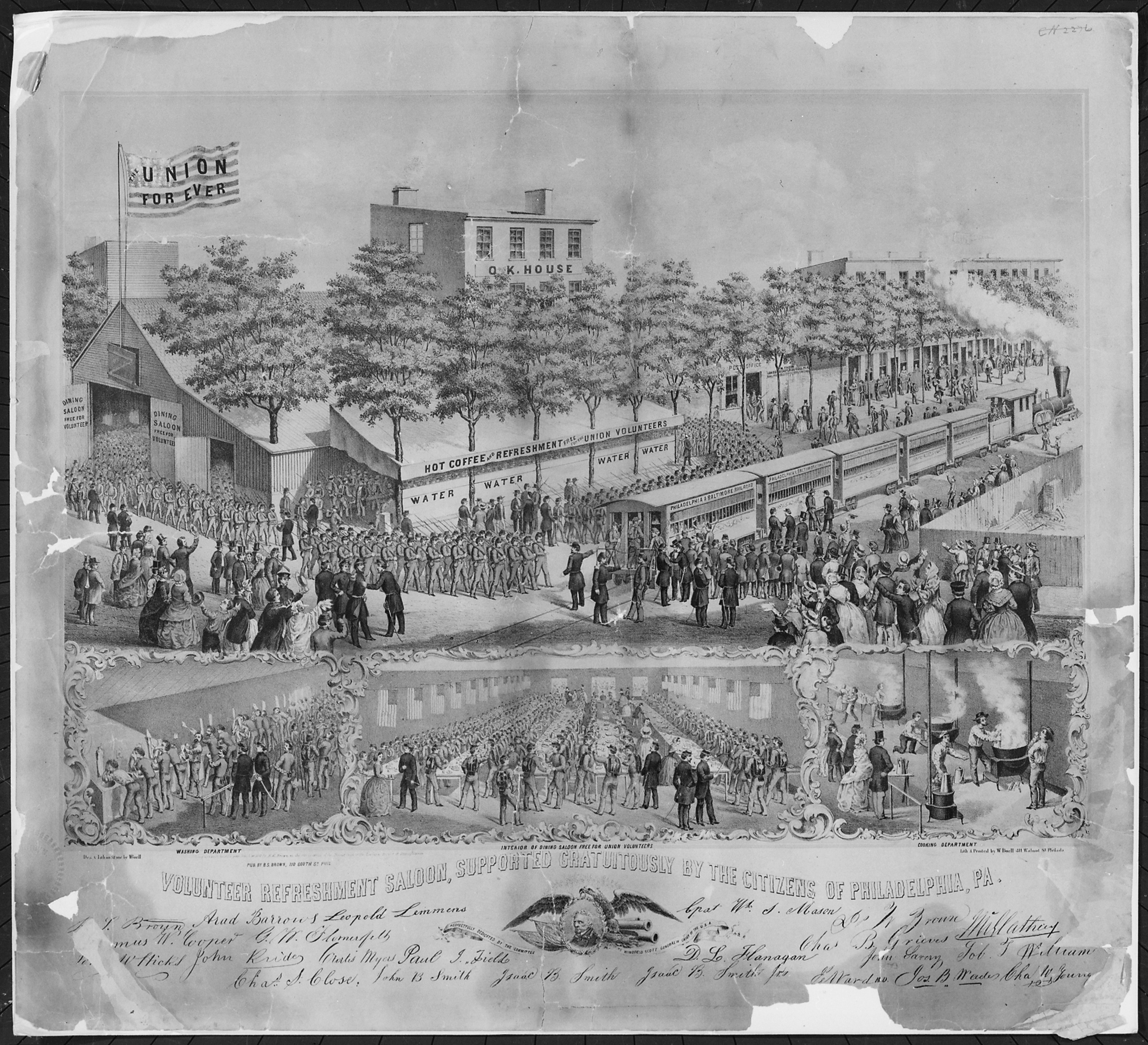 Scope and content: The picture includes a view of the outside and three small views of the inside. General notes: Lithograph